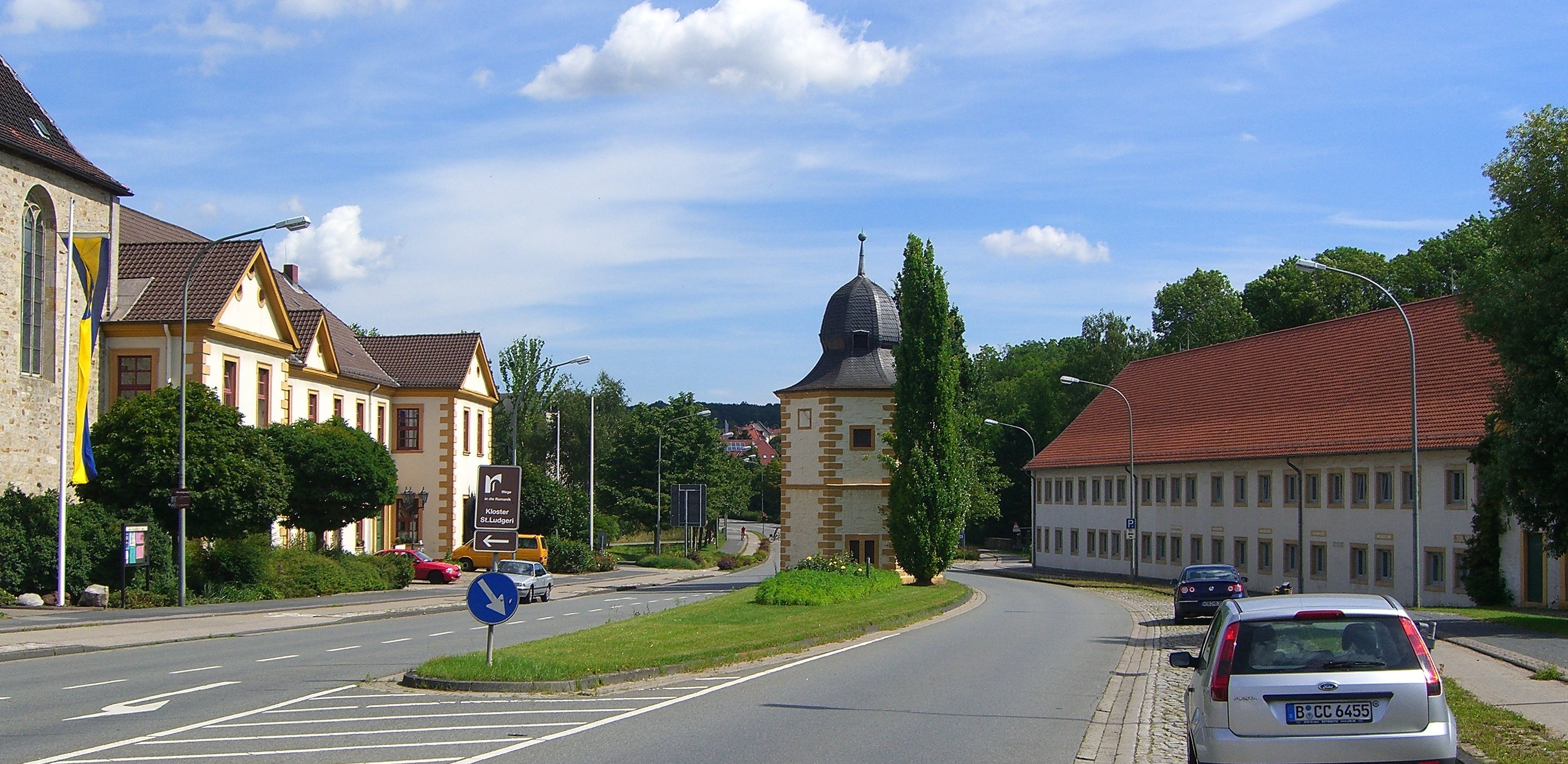 convent buildings of Saint Ludgeri in Helmstedt